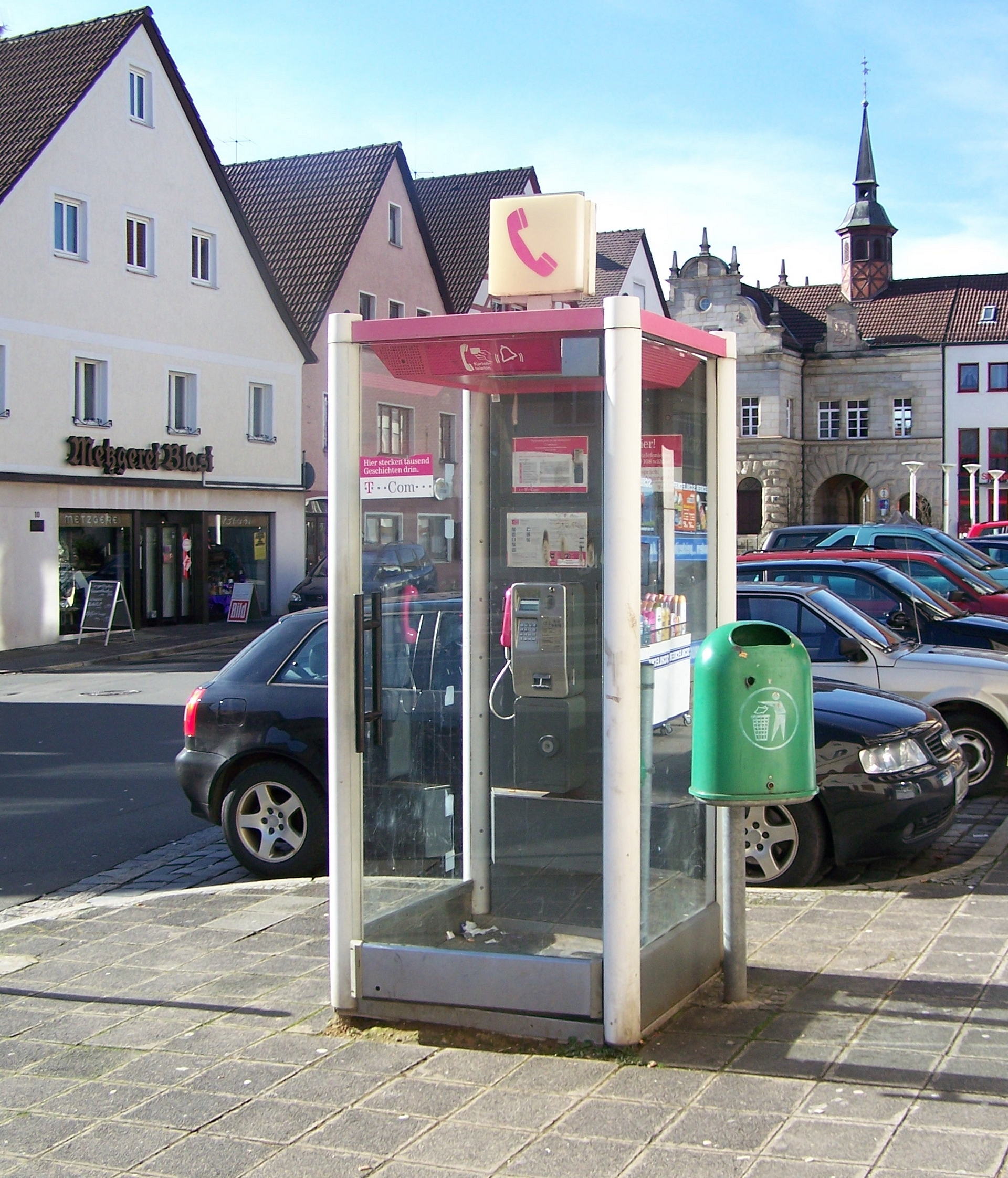 Telephone booth and waste container in Schnaittach, Germany.